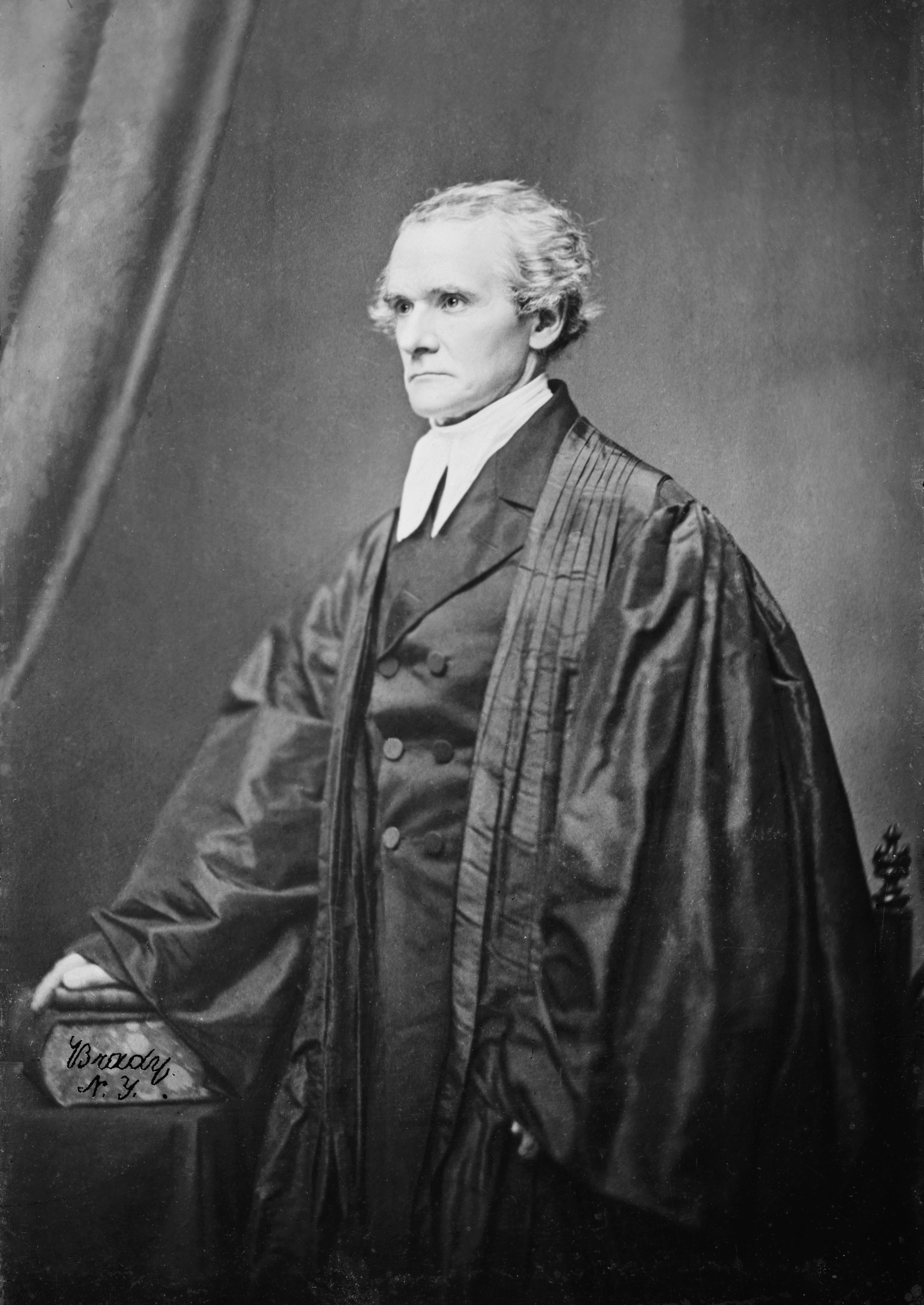 Charles Anthon. Library of Congress description: "Dr. Charles Anthon"